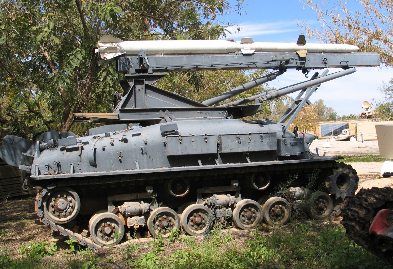 Description: Kachlilit AGM-45 Shrike anti-radiation missile launcher at Muzeyon Heyl ha-Avir, Hatzerim, Israel. 2006. Source: Photo by me, User:Bukvoed.